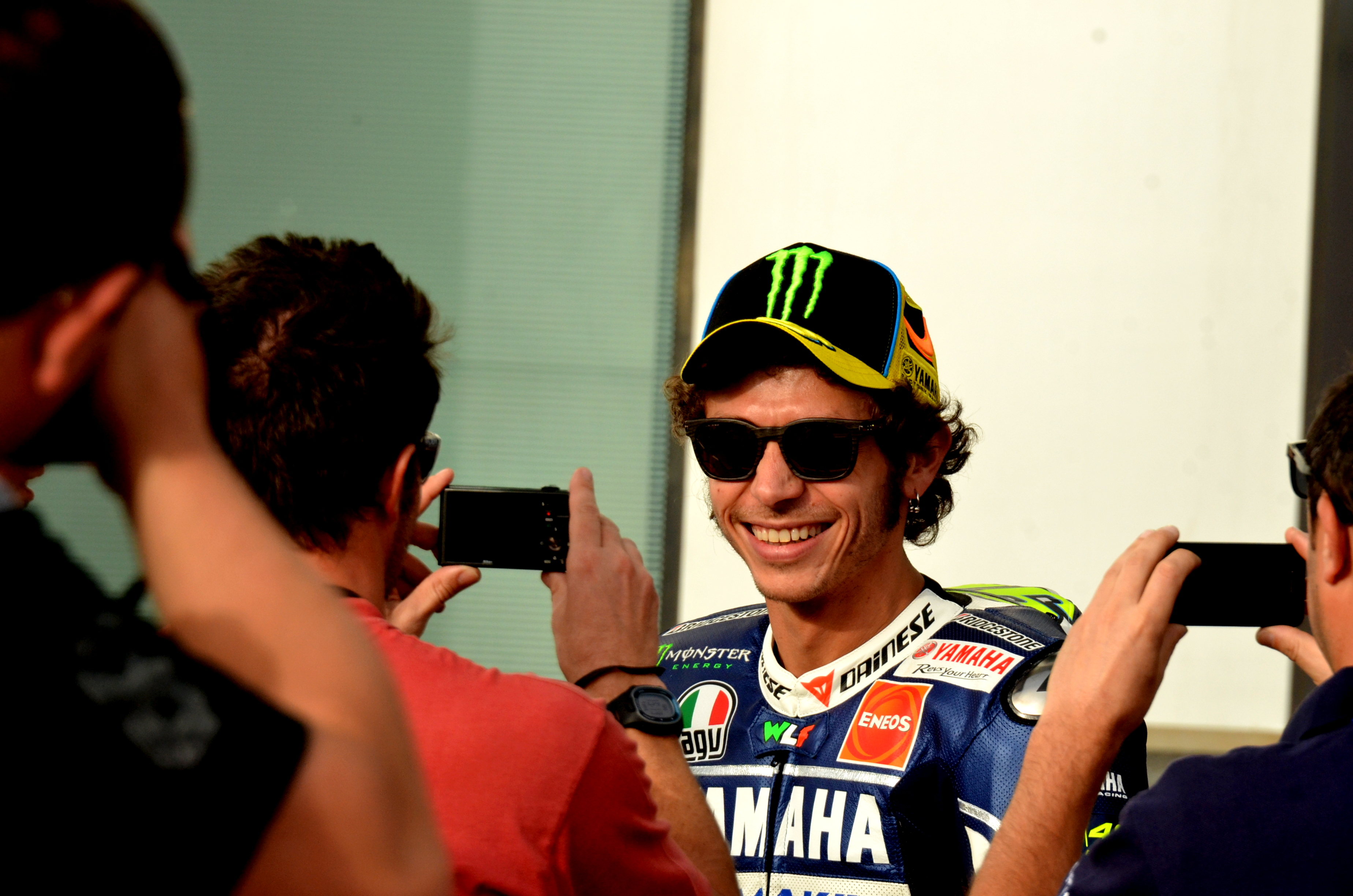 Valentino Rossi with fans during Qatar Grand Prix 2013.